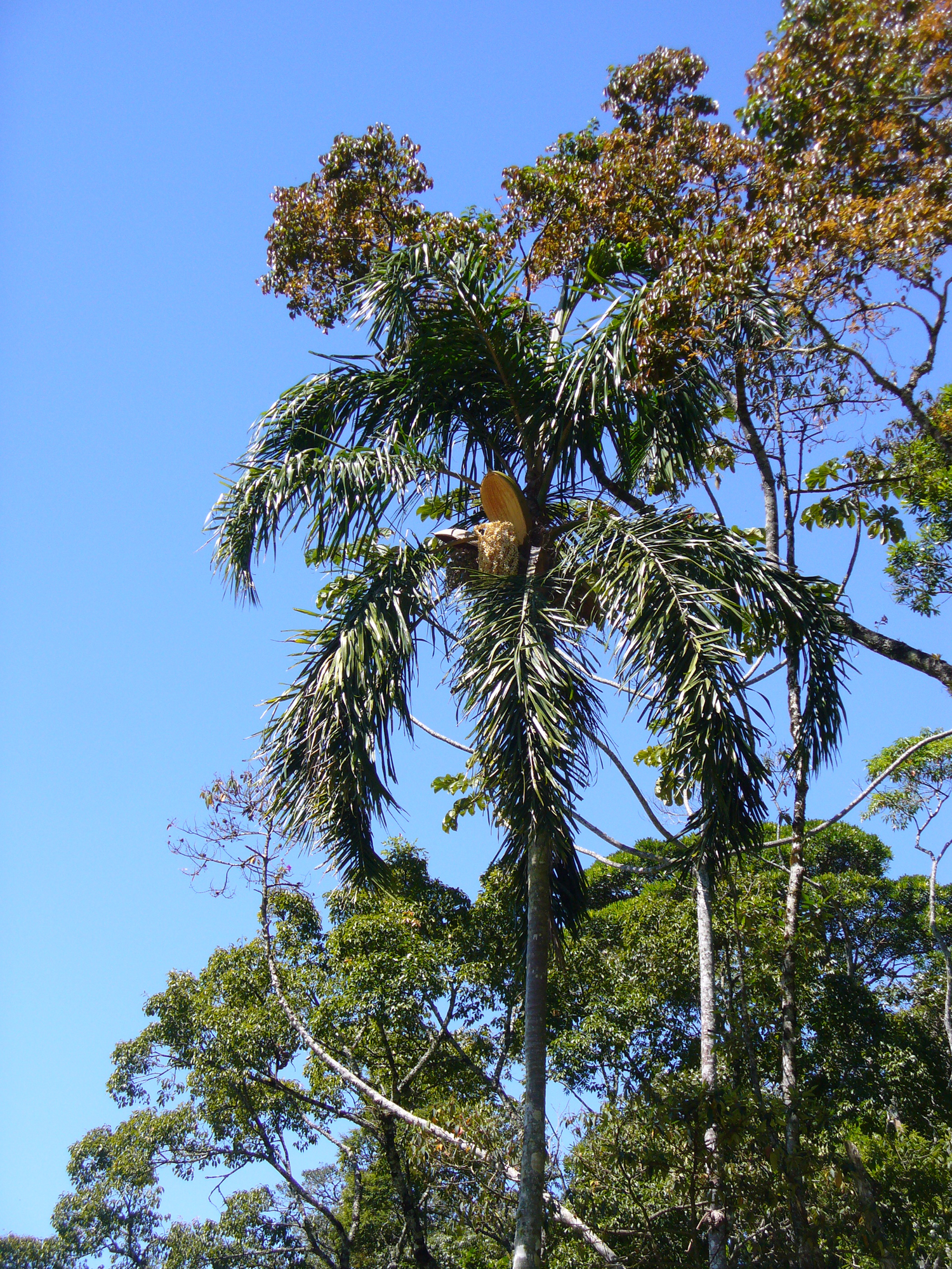 Sitio Burle Marx, outside Rio de Janeiro, Brazil. Home of the famous artist and landscape designer Roberto Burle Marx. Visited on IPS Biennial tour.